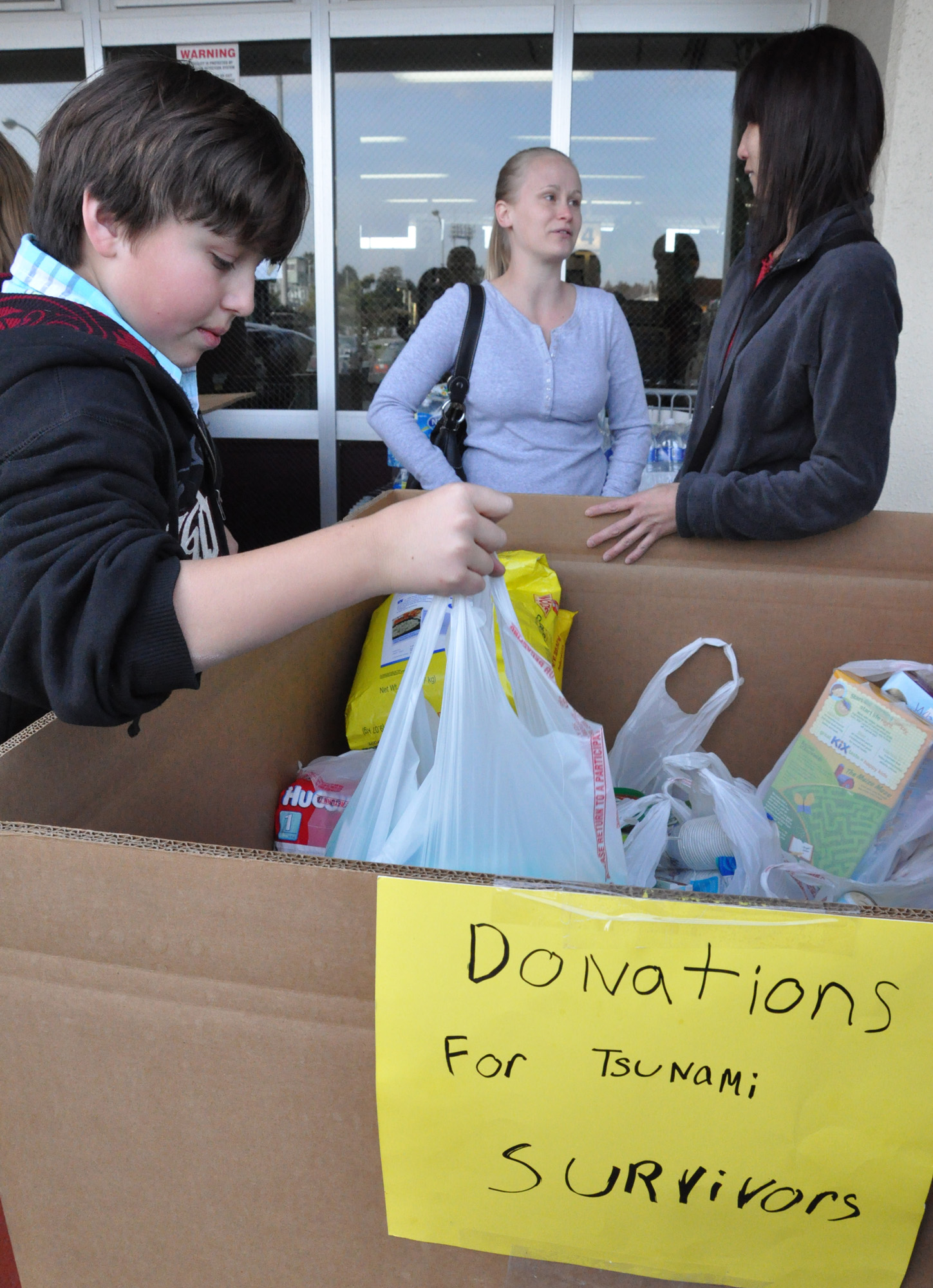 ATSUGI, Japan (March 11, 2011) Residents of Naval Air Facility Atsugi collect food, water, and relief supplies to support earthquake and tsunami relief operations in Japan. (U.S navy photo by Mass Communication Specialist 1st Class Ben Farone\Released)